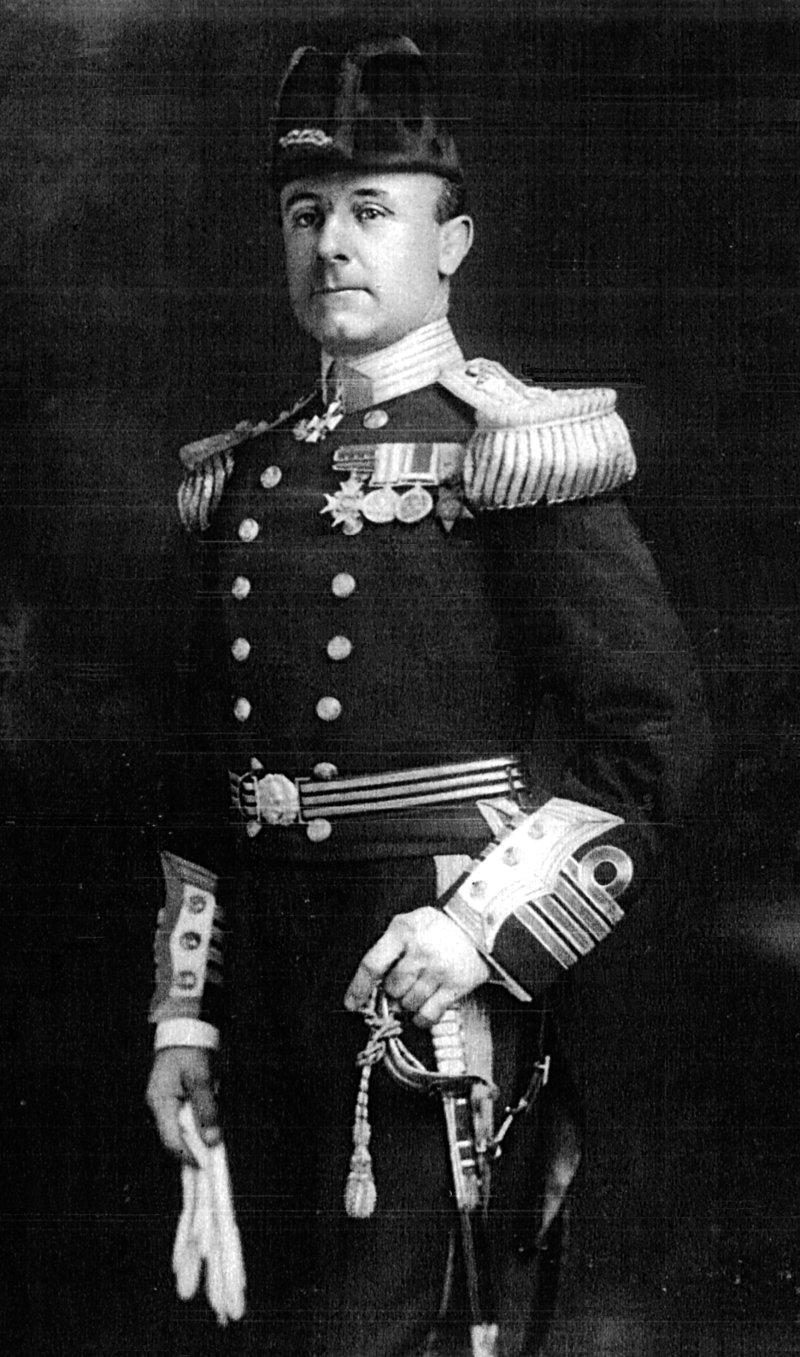 Captain (later admiral of the fleet) John Jellicoe - Project Gutenberg eText 16363